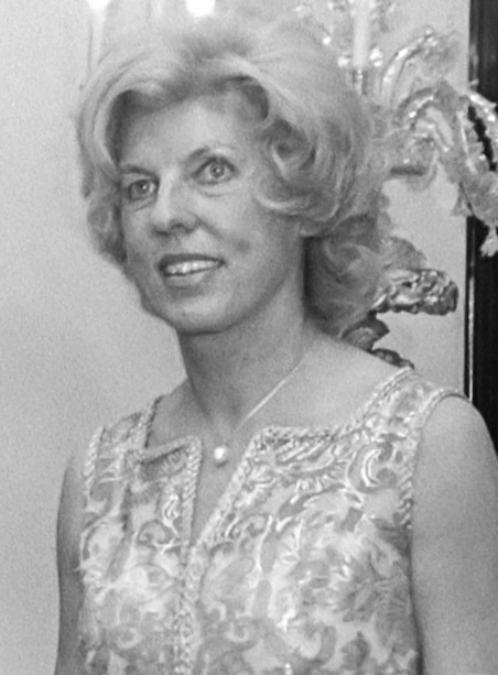 Koningin Juliana en prins Bernhard bieden de deelnemers aan de EEG-Topconferentie een galadiner aan op paleis Huis ten Bosch; v.l.n.r. koningin Juliana, president Pompidou van Frankrijk, mevrouw Claude Pompidou en prins Bernhard 1 december 1969